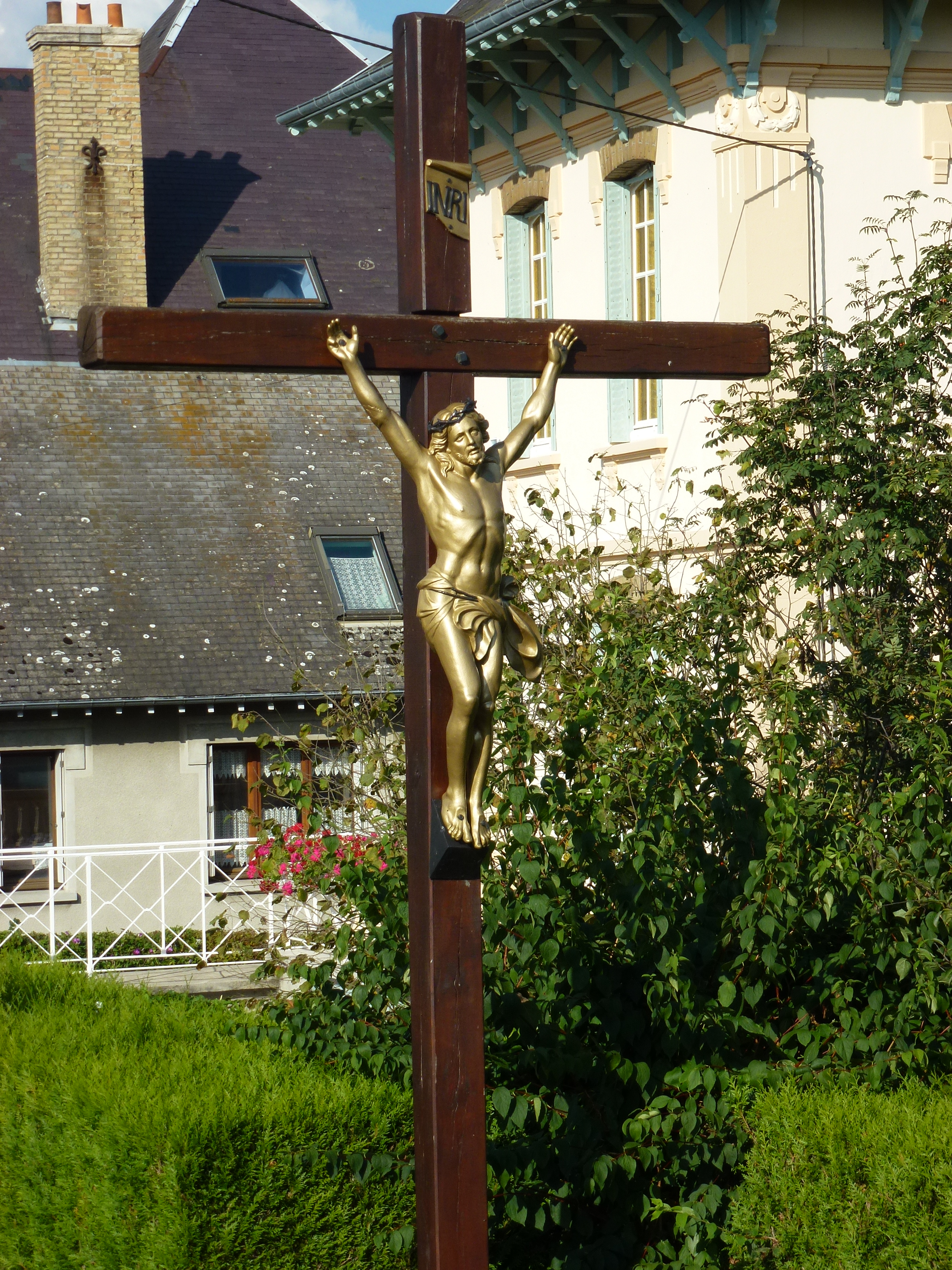 Attigny (Ardennes) croix de chemin à coté du pont